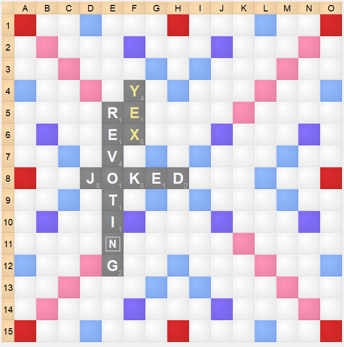 An example of a Scrabble game in progress using Quackle, an open-source program. The first few plays are JOKED 8D 50, followed by REV(O)TInG E5 94 and YEX# F4 56.